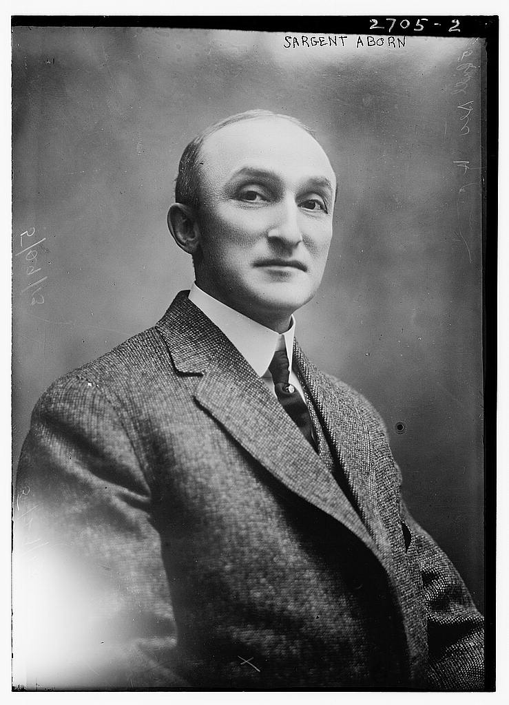 Bain News Service,, publisher. Sargent Aborn of the Aborn Opera Company [no date recorded on caption card] 1 negative : glass ; 5 x 7 in. or smaller. Notes: Title from unverified data provided by the Bain News Service on the negatives or caption cards. Forms part of: George Grantham Bain Collection (Library of Congress). Format: Glass negatives. Repository: Library of Congress, Prints and Photographs Division, Washington, D.C. 20540 USA, General information about the Bain Collection is available at Persistent URL: Call Number: LC-B2- 2705-2